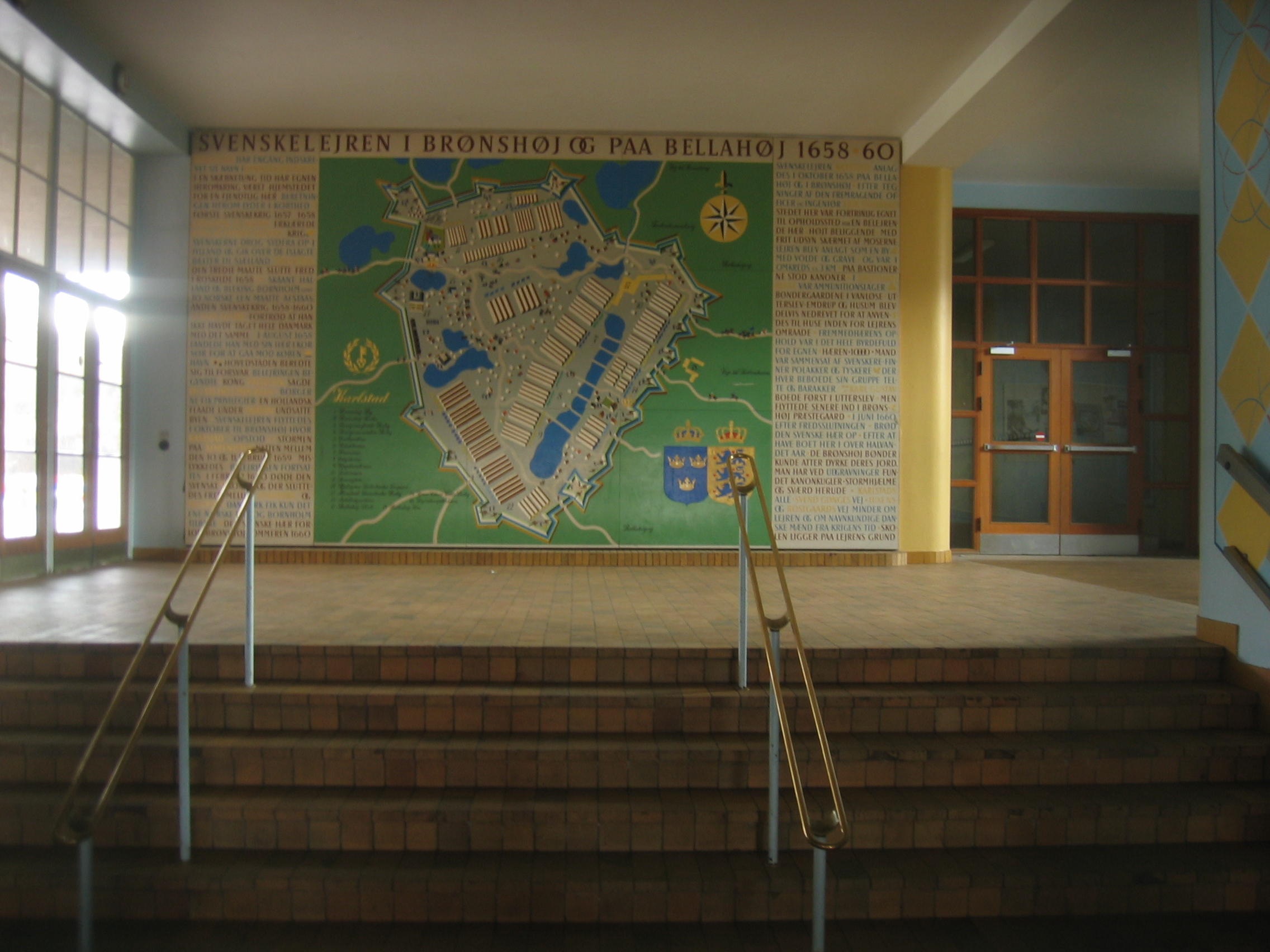 Wall painting showing the swedish camp during the war of 1658-60